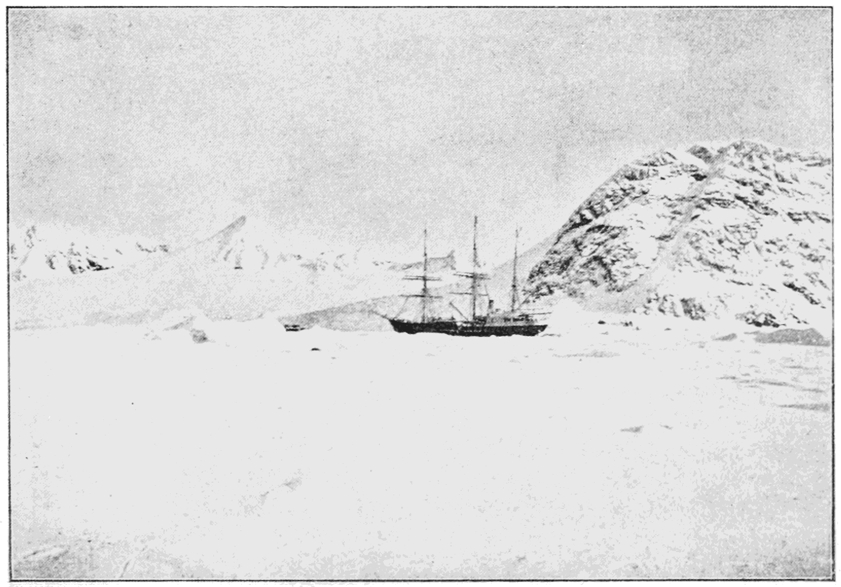 The Scotia in Scotia bay